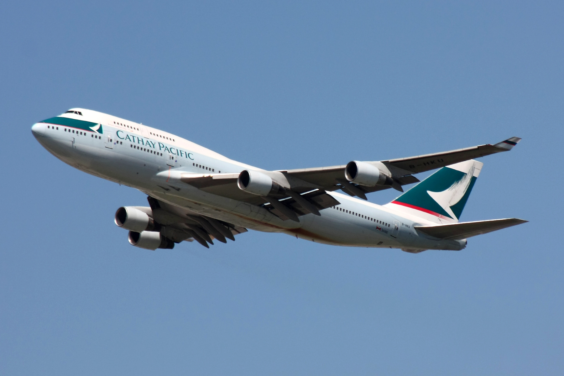 Cathay Pacific Boeing 747-400 B-HKU takes off at Frankfurt Int'l Airport